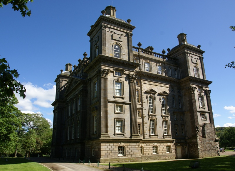 Duff House, Banff, Aberdeenshire, Scotland. View from northwest.